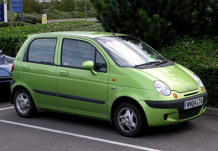 2004 Daewoo Matiz in Bristol, England. Taken by Adrian Pingstone in Sept 2004 and released to the public domain